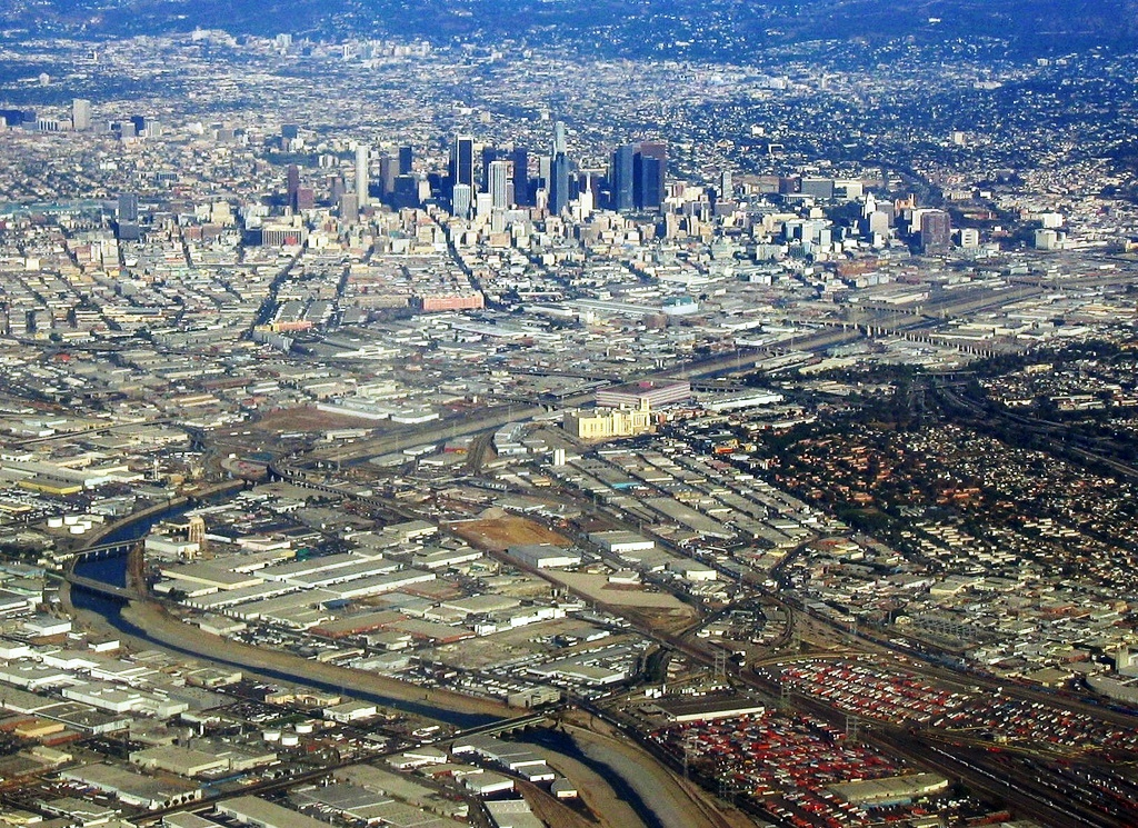 The Los Angeles River in Eastside Los Angeles, Southern California. Downtown Los Angeles rises in the background.